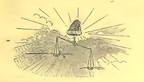 Detail of illustration depicting Charles B. Norton's emblem depicting a balance with pen heavier than the sword.The Pen is mightier than the Sword.